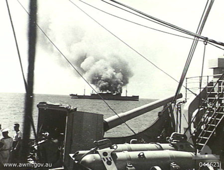 AWM Caption: OFF NAURU, 1940-06-12. THE ITALIAN MERCHANT VESSEL ROMOLO BEING SCUTTLED AFTER INTERCEPTION BY HMAS MANOORA.